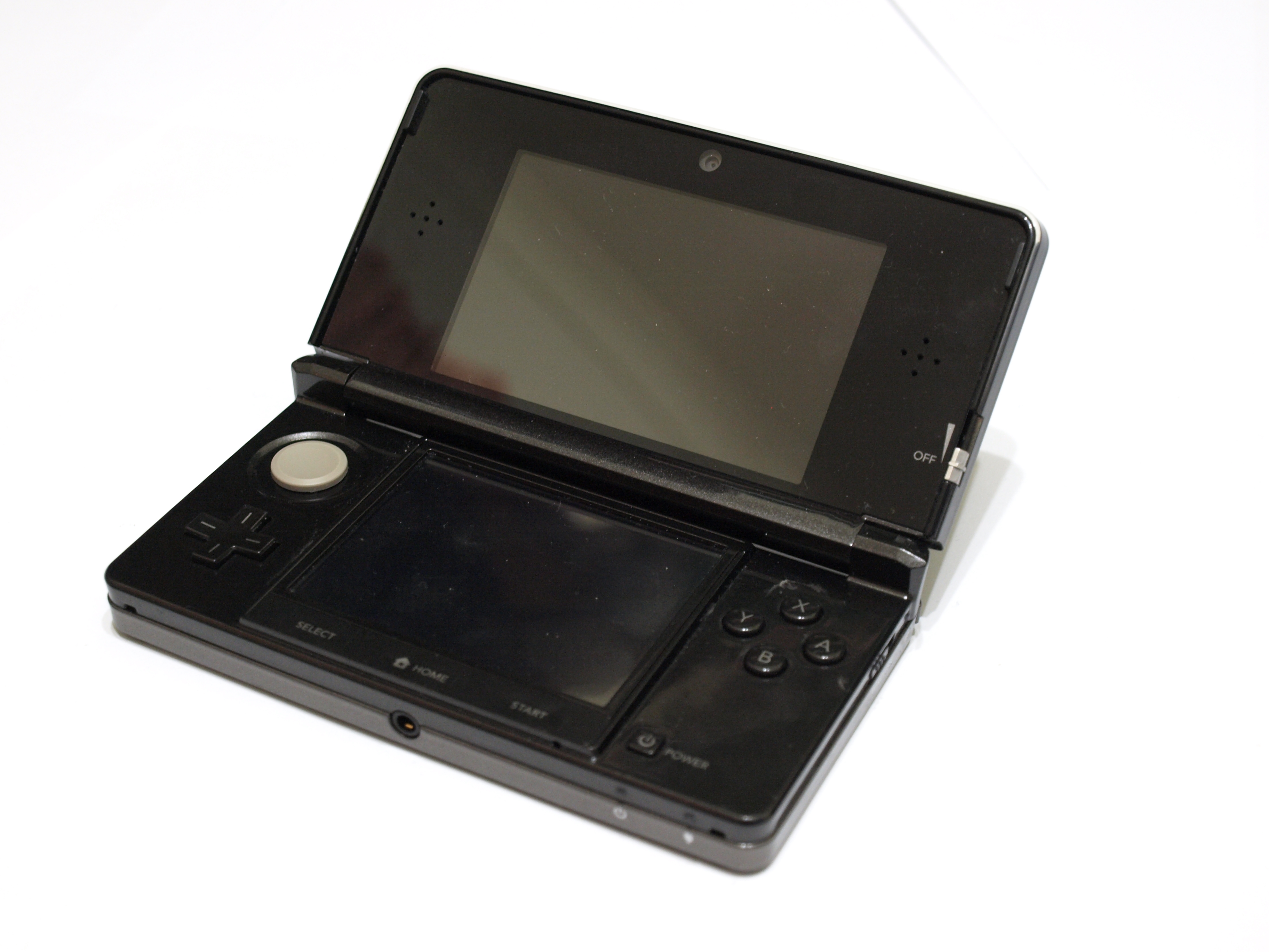 A black Nintendo 3DS handheld game system.